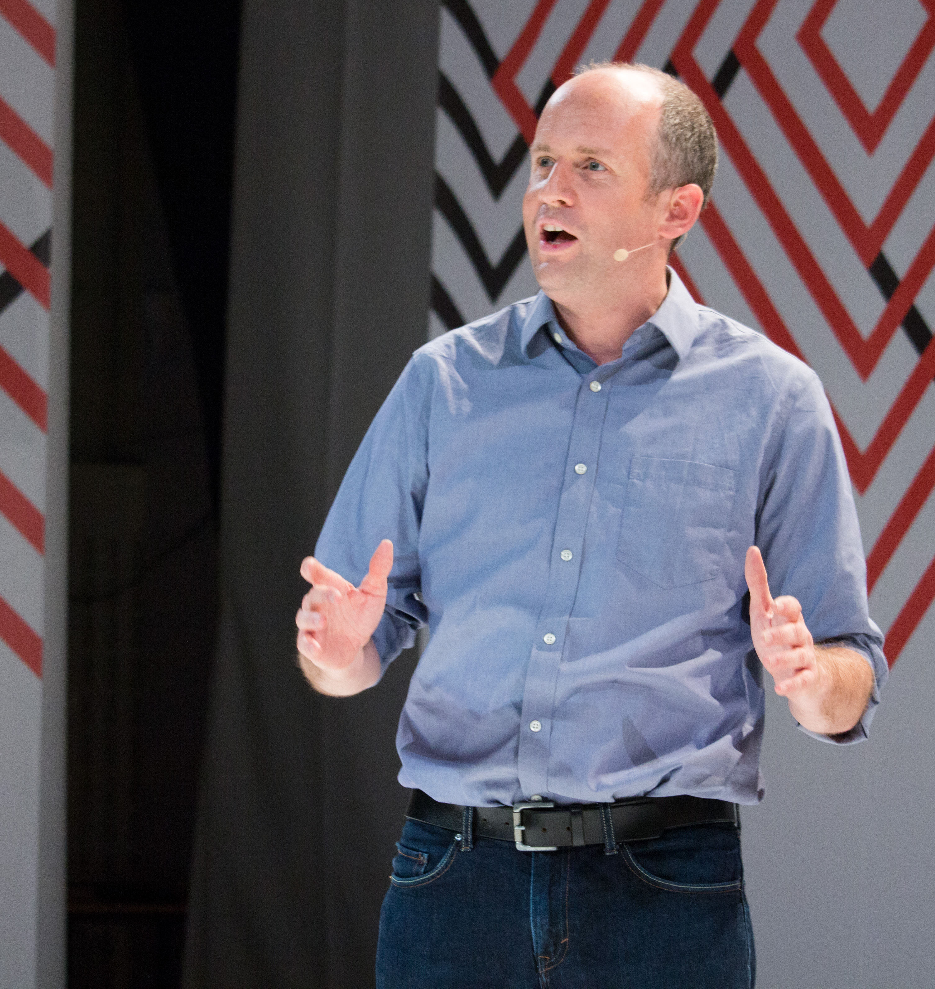 Oliver Burkeman at Brainwash Festivaal 2015